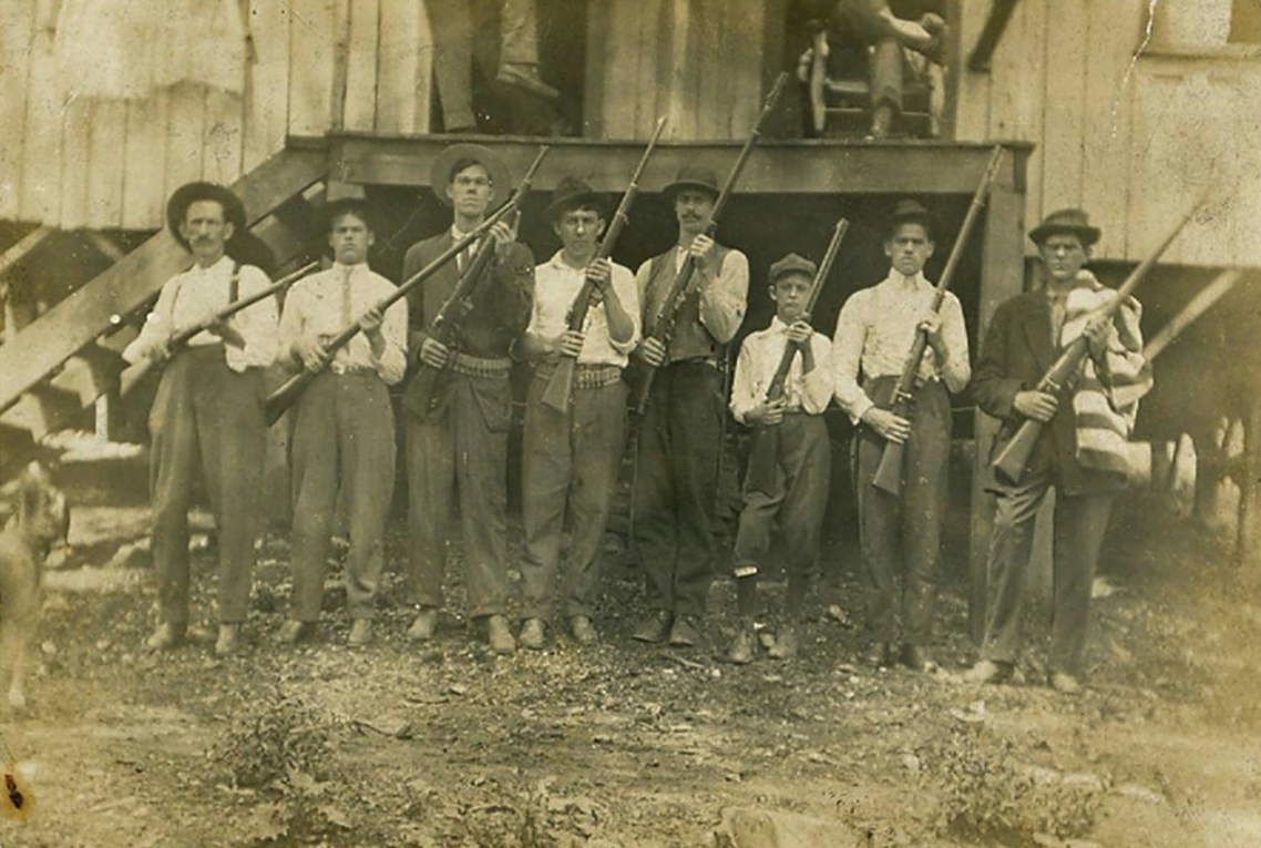 Miners posing with their guns in Eskdale, West Virginia during the Paint--Cabin Creek strike from 1912-1913.